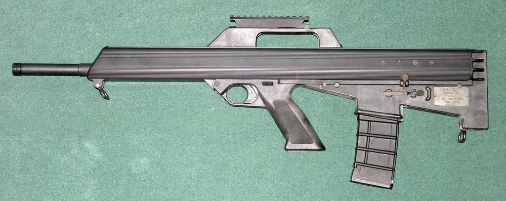 Photograph by me of my M17S on a green towel.